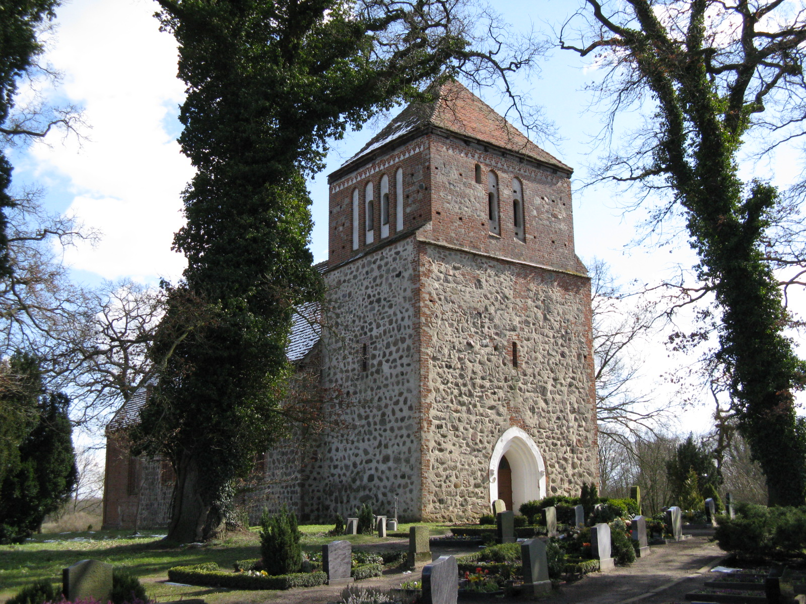 Church in Unter Brüz, Germany